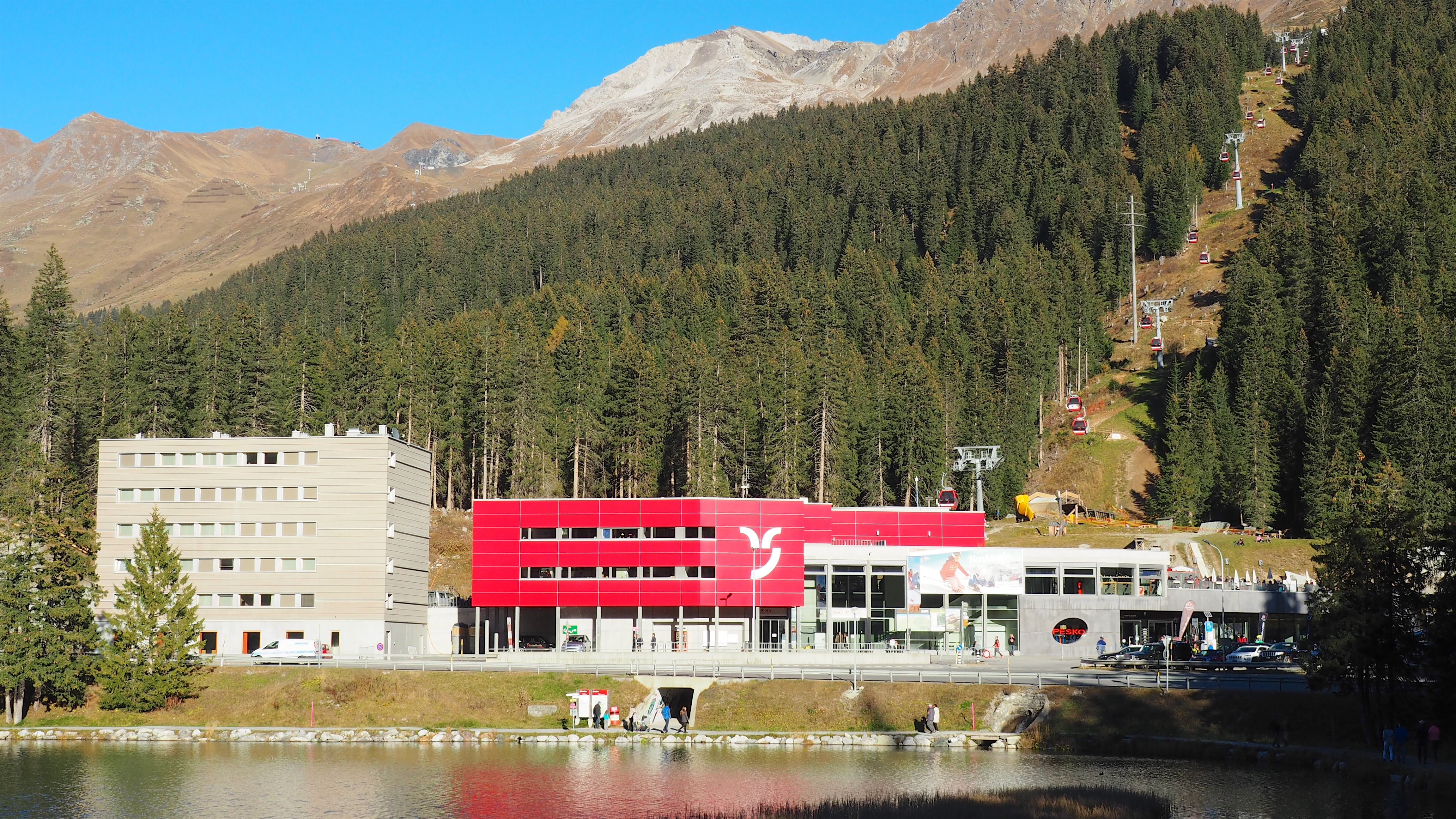 Valley station of Rothorn cable car with mountain bike park in Lenzerheide/Switzerland